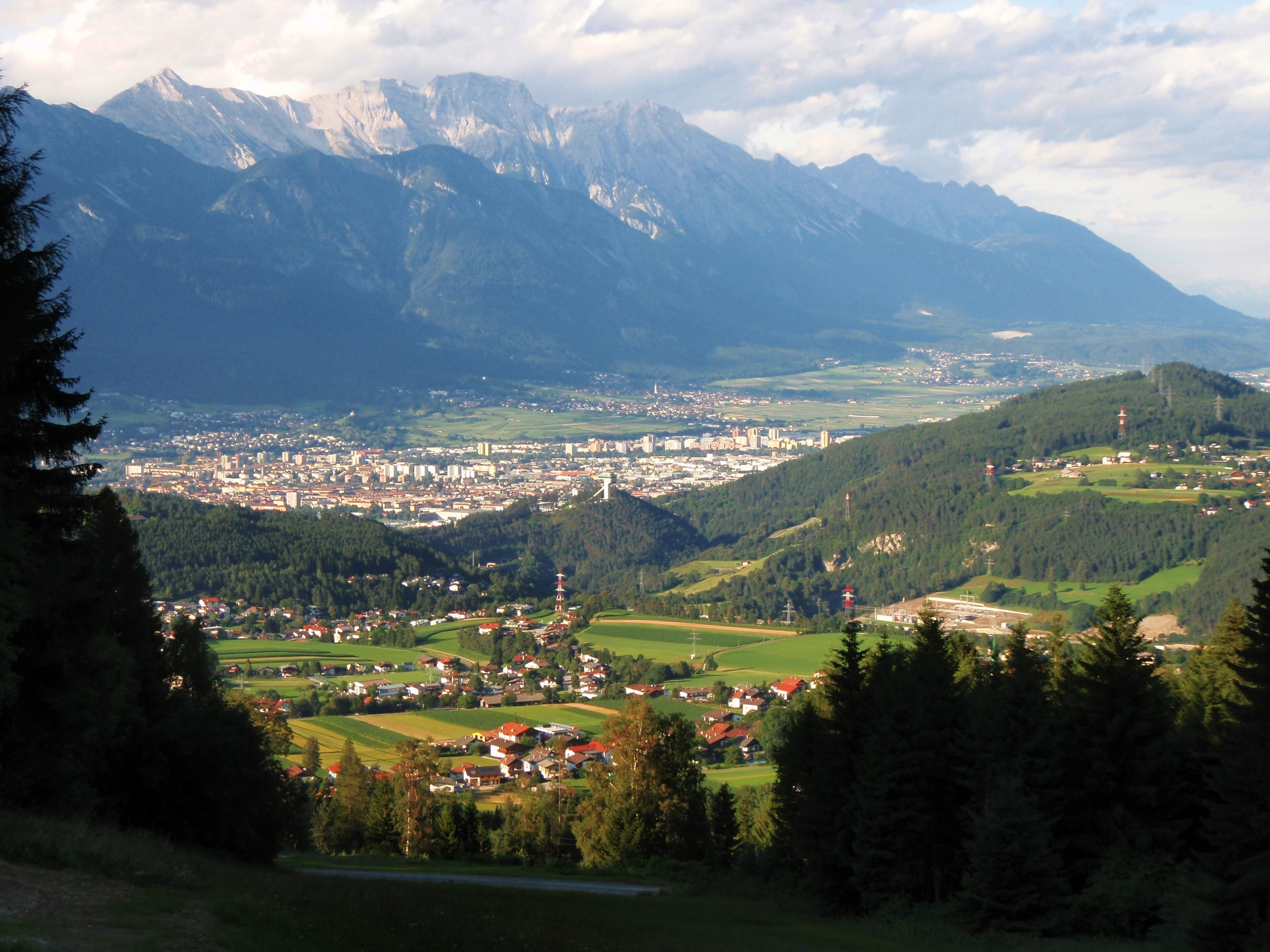 Innsbruck and parts of the lower Inn valley, seen from southwest. In the foreground one can see the villages of Mutters and Natters and the Bergisel ski jumping hill. The Karwendel mountains are behind Innsbruck.